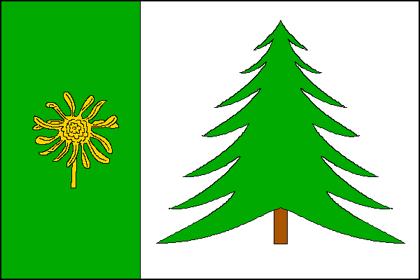 Municipal flag of Kubova Huť village, Prachatice District, Czech Republic.